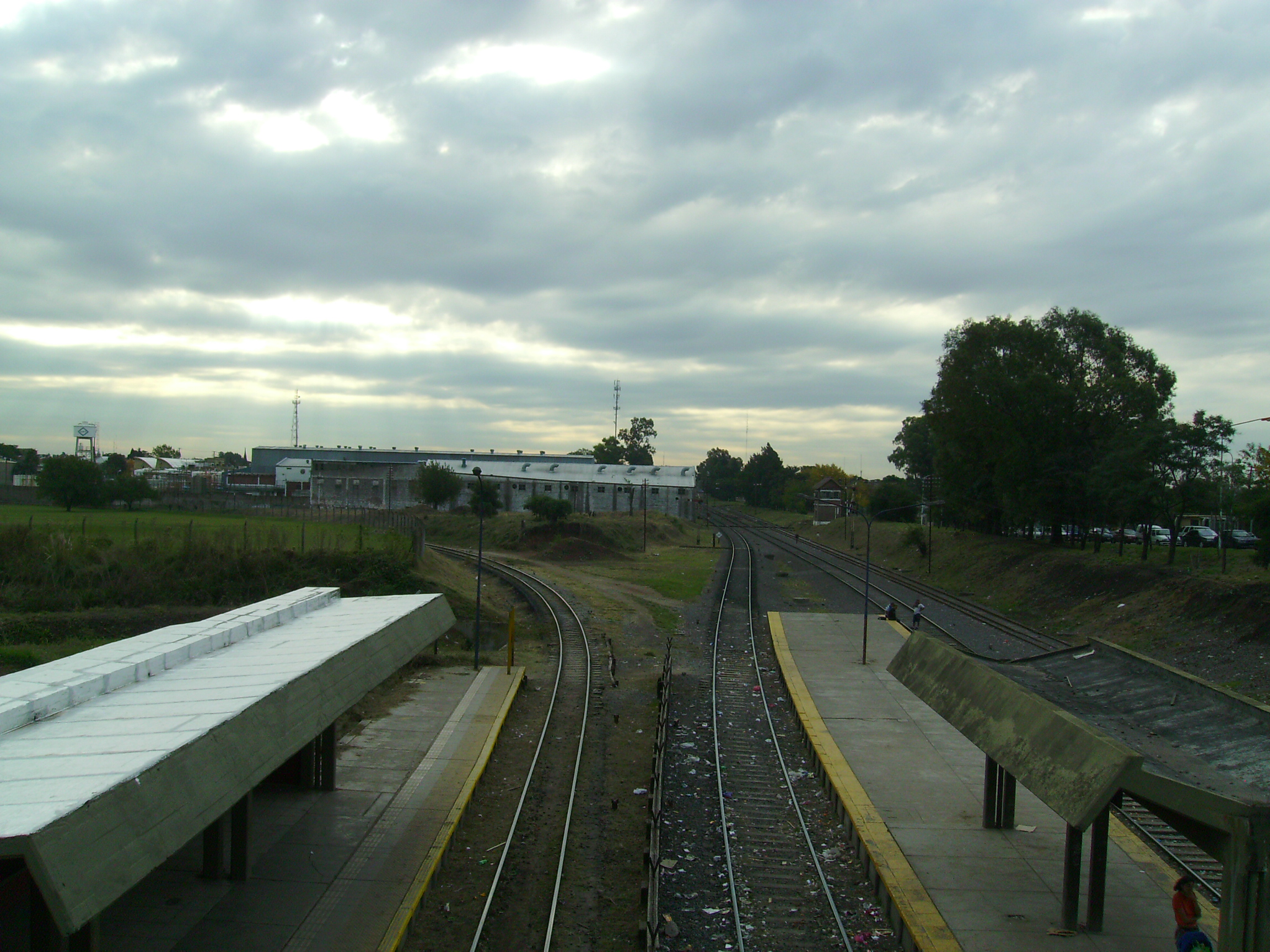 Agustín de Elía halt